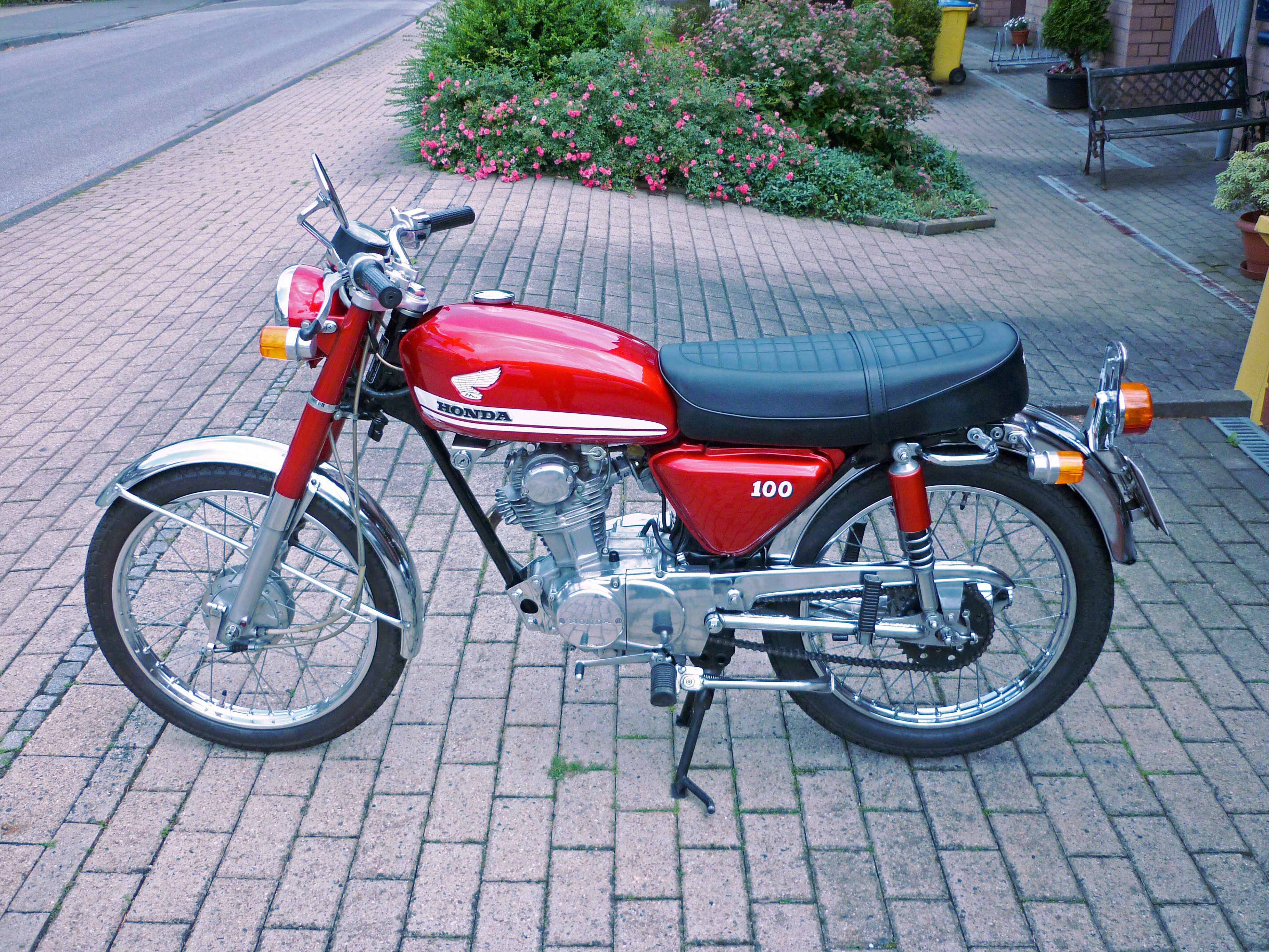 1970 Honda CB 100, left side